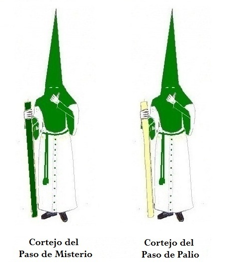 Hábito nazareno de la Hdad. de la Veracruz